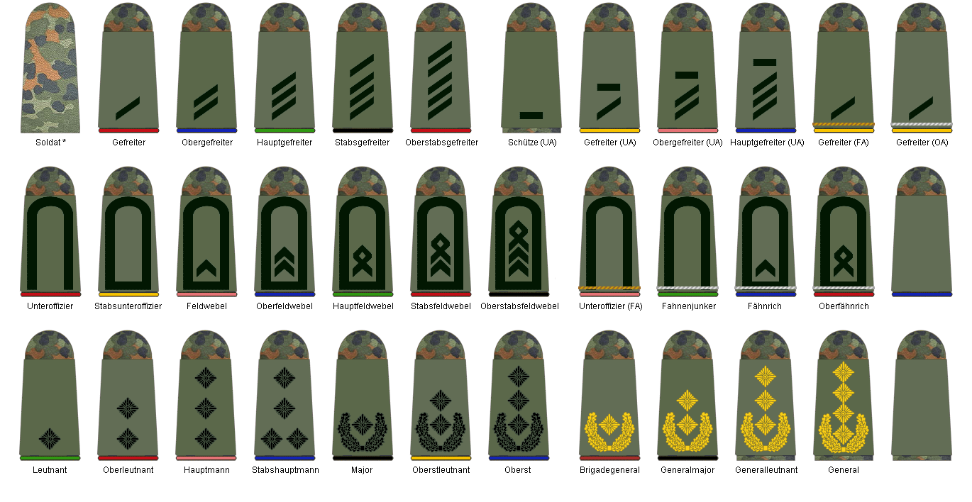 German Army rank insignia complete collection